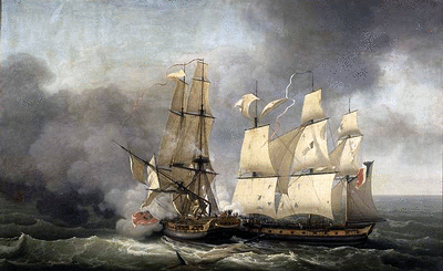 French corvette Bayonnaise boarding HMS Ambuscade during the Action of 14 December 1798